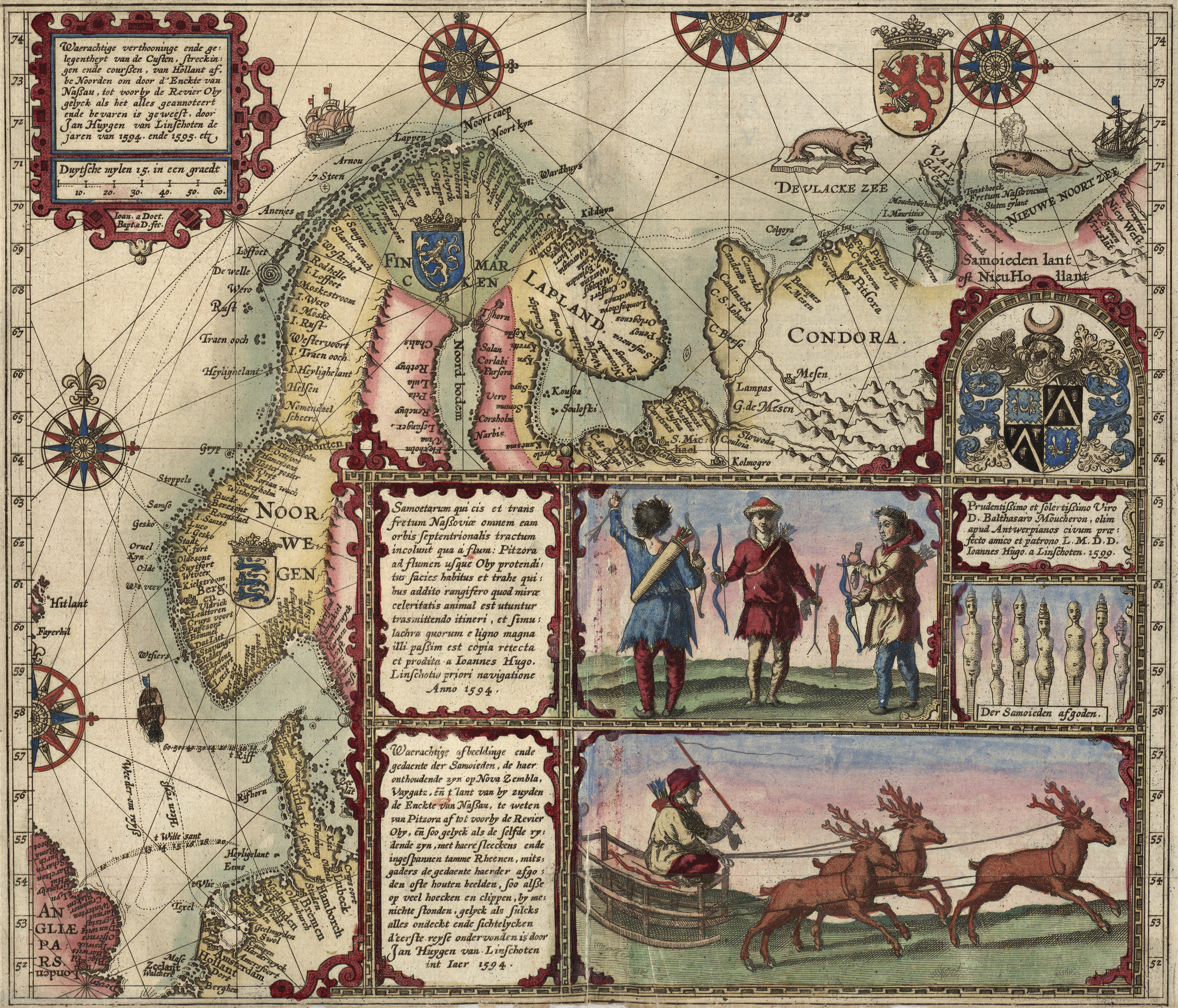 Tittel / Title: Waerachtige verthooninge ende gelegentheyt van de Custen, streckingen ende courßen, van Hollant af, be Noorden om door d'Enckte van Naßau, tot voorby de Revier Oby. Beskrivelse / Description: Trykket og håndkolorert kart i Linschotens reisebeskrivelse Voyagie, ofte Schip-Vaert som omhandler Willem Barents ekspedisjoner i nordområdene. Dato / Date: 1601 Sted / Place: Franeker Kartograf / Cartographer: Jan Huygen van Linschoten Digital kopi av original / Digital copy of original: no-nb_krt_00679 Eier / Owner Institution: Nasjonalbiblioteket / National Library of Norway Lenke / Link: Bildesignatur / Image Number: qKart 1641 ib.